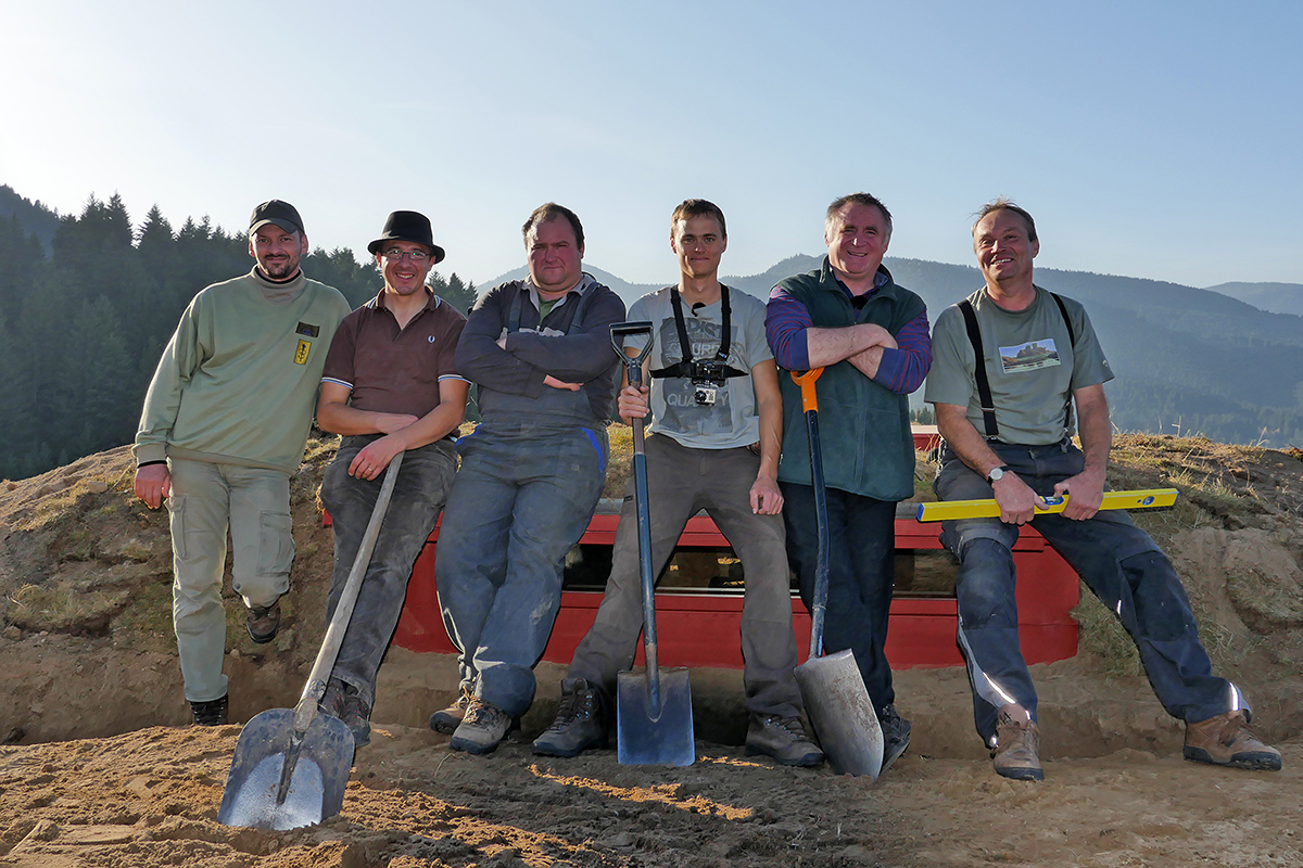 Brother Csaba Böjte, Bence Mate and their team is building bear hide for orphen childrens near Tusnad.